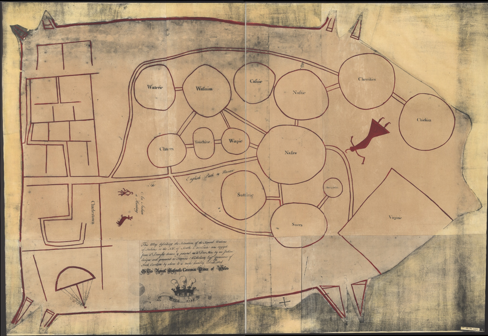 Photograph of a deerskin map translated in imitation of another prepared by a Catawba chieftain and given to South Carolina colonial Governor Francis Nicholson in 1721. The original is now in the British Museum. Image has been scaled and had minor level adjustments made.